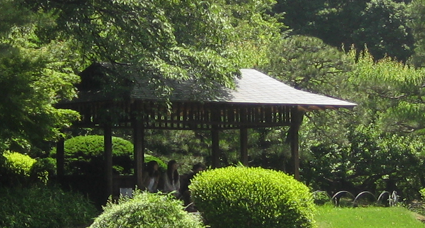 Impression of Shinjuku Gyoen, Tokyo. Zoom-in of a pavilion in the park.